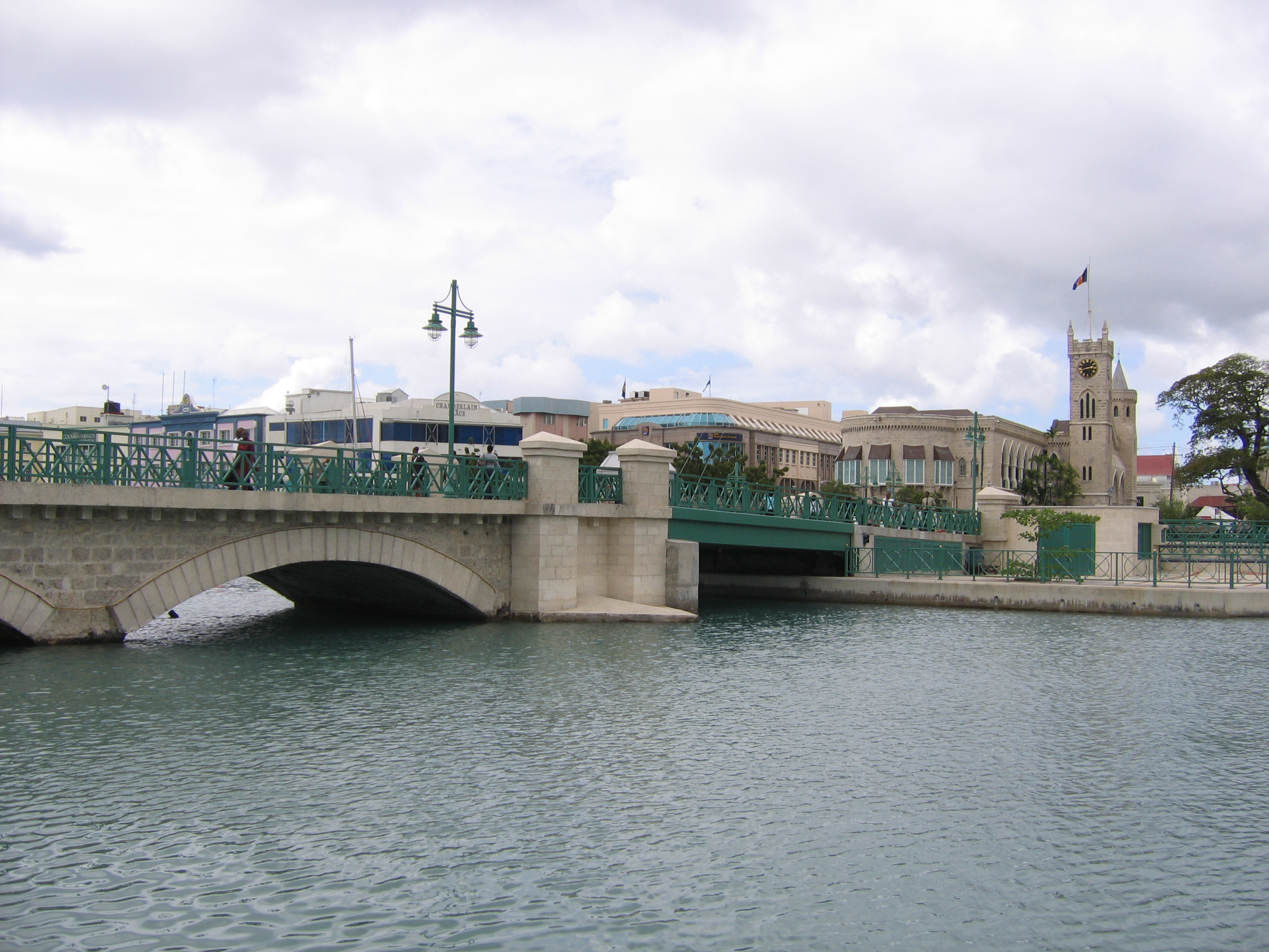 Chamberlain Bridge, Bridgetown, Saint Michael, Barbados. Parliament Building in the distance.